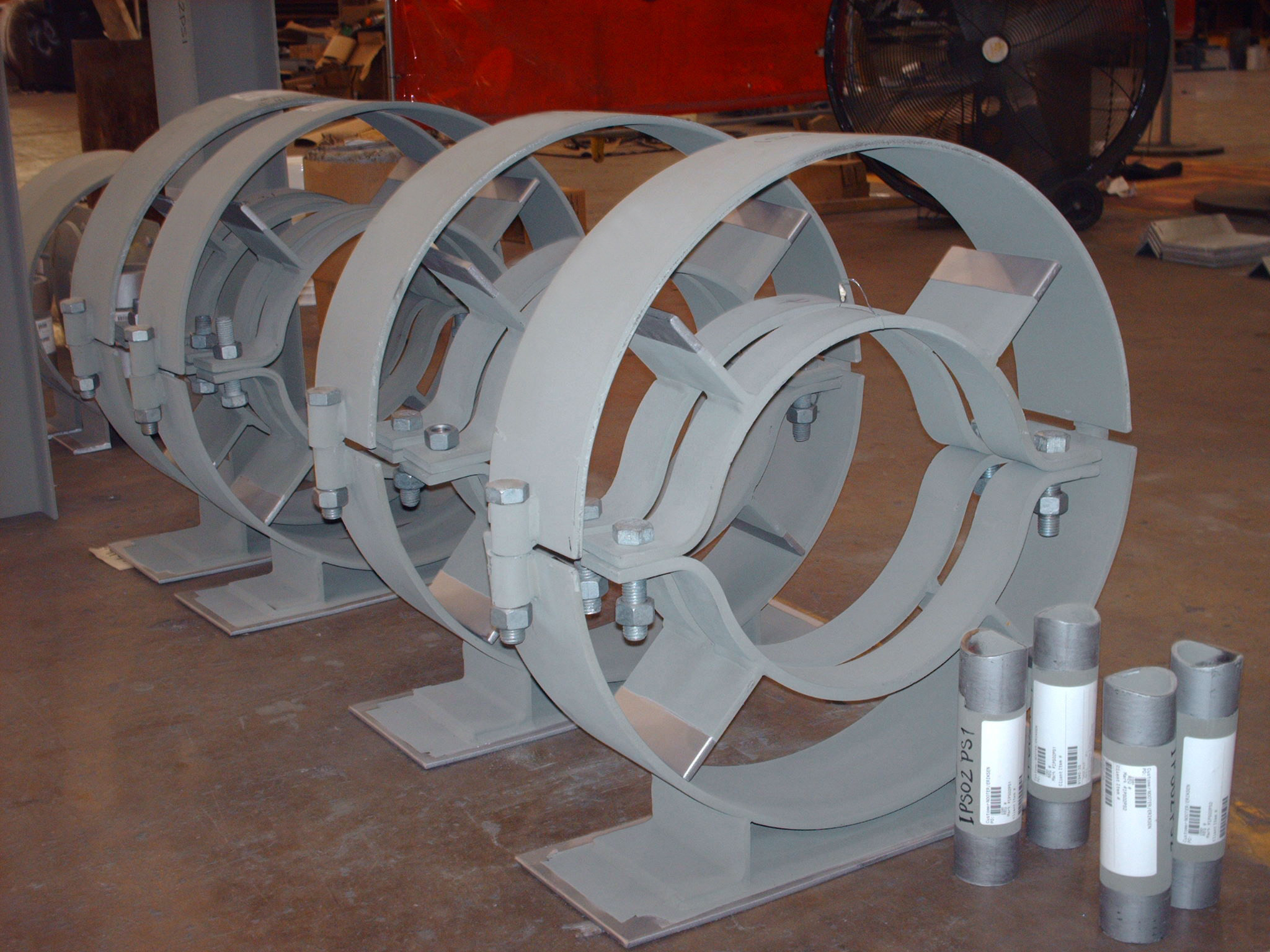 Cylinder pipe guides (Spider Guides) manufactured by Piping Technology & Products, Inc.